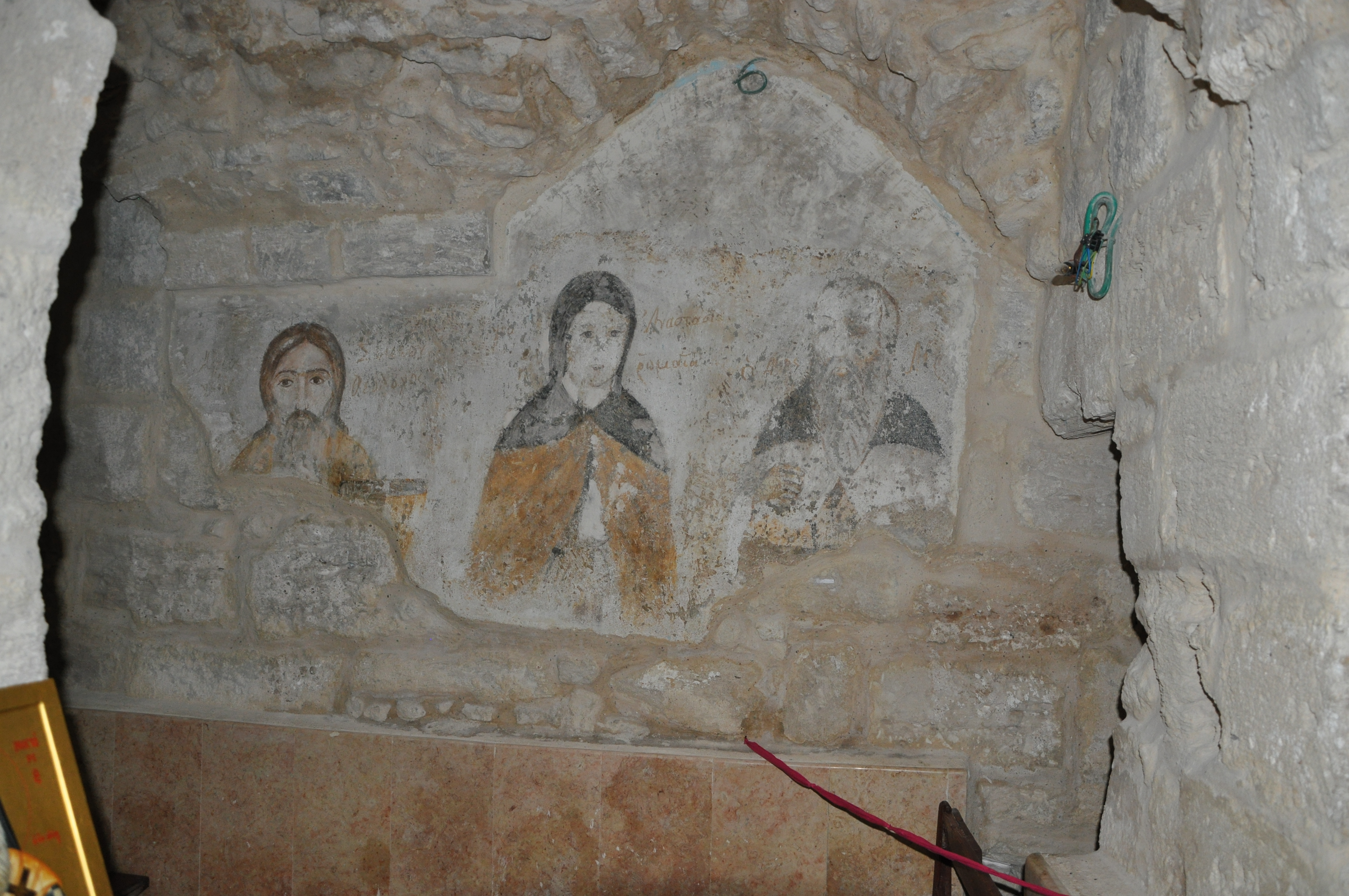 Fresca Gersim